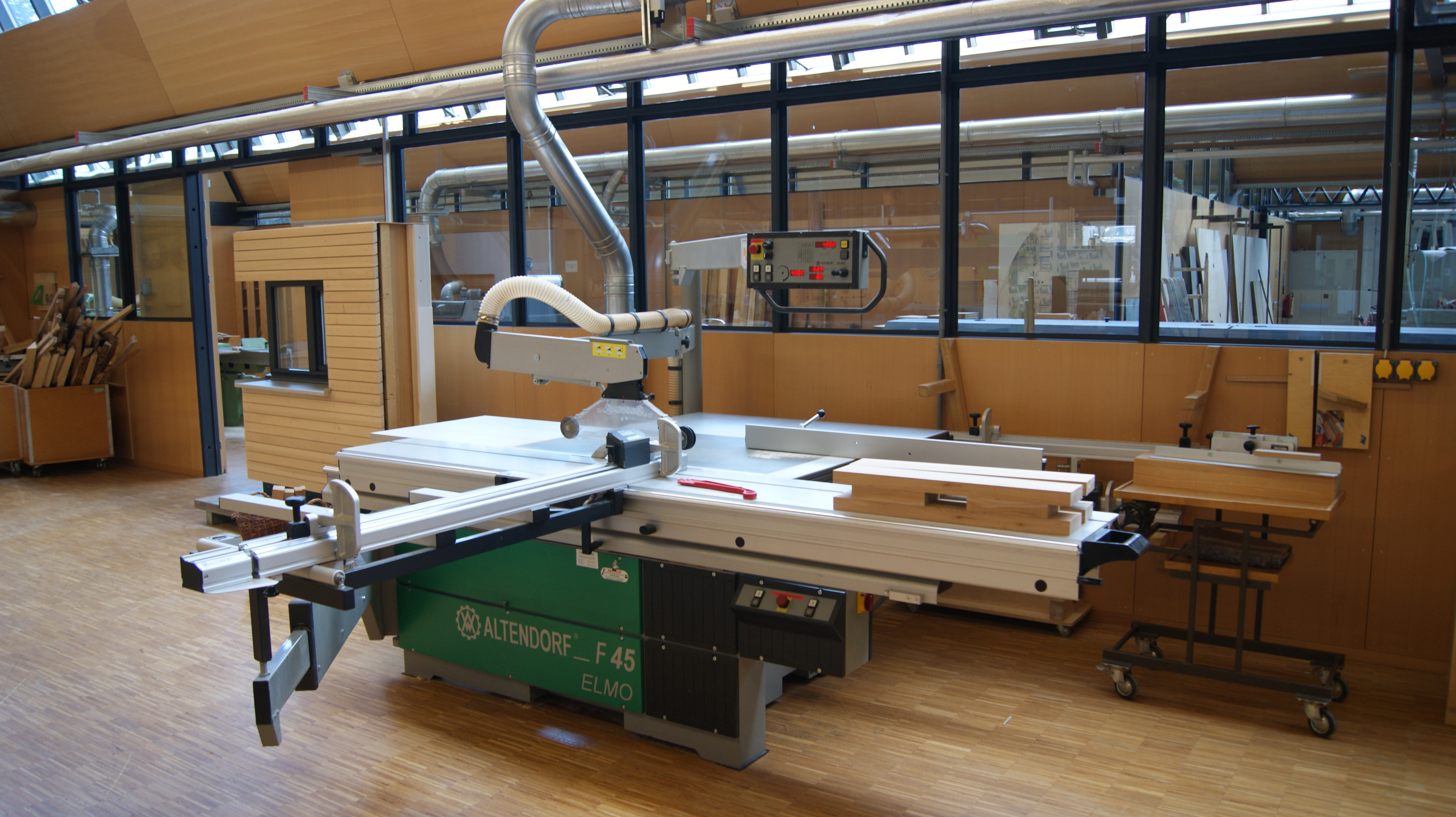 Vocational school Dornbirn I in Dornbirn, Vorarlberg, Austria. Table saw Altendorf F 45 ELMO 3 CE, year of construction: 1998.